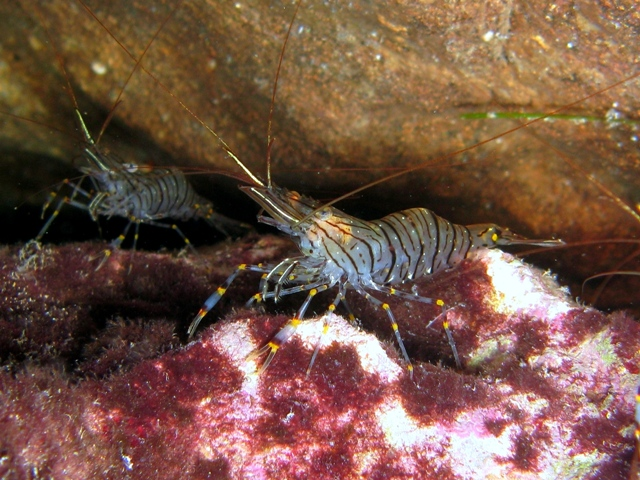 Palaemon serratus photographed in Croatian waters by Roberto Pillon